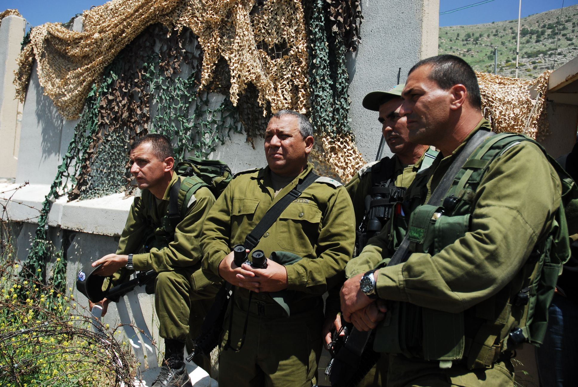 Maj. Gen. Gadi Eisenkot of North. Cmd. and Brig. Gen Eyal Zamir of Division 36 this morning at Hila Lookout.